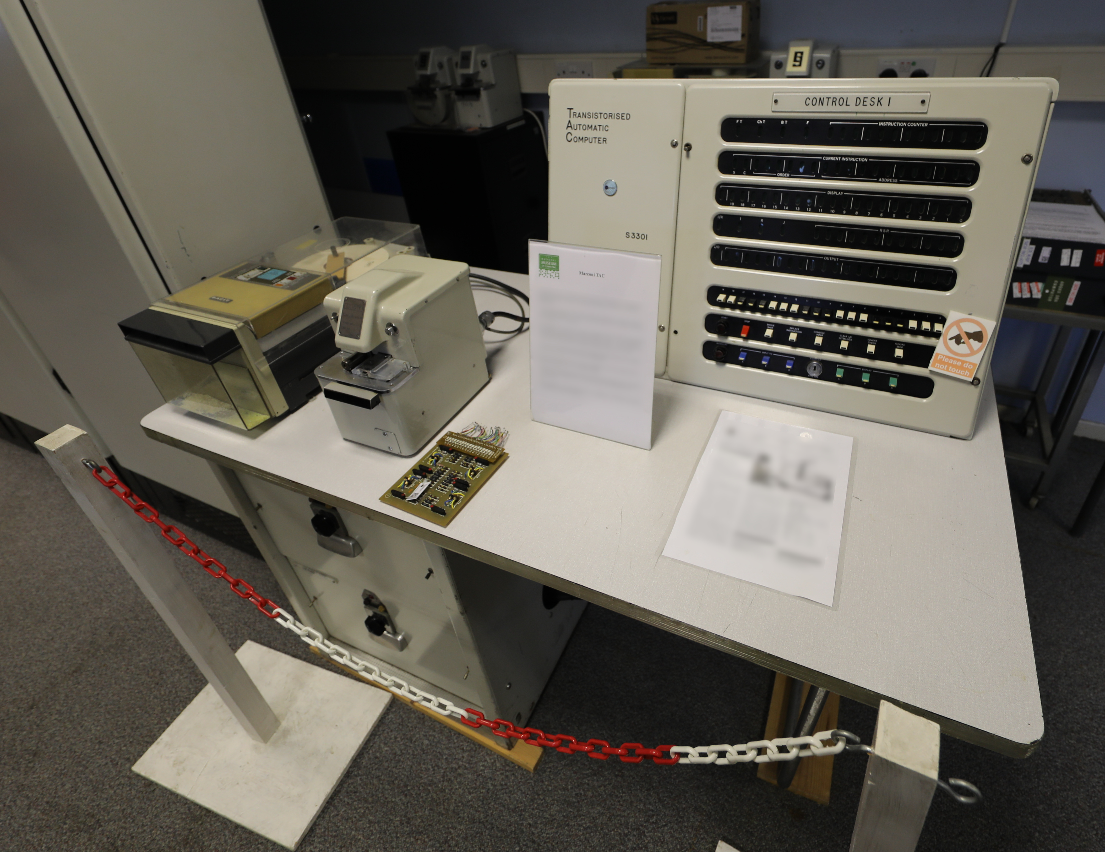 Photo of a Marconi Transistorised Automatic Computer control desk (the actual computer is in the cabinets in the background)